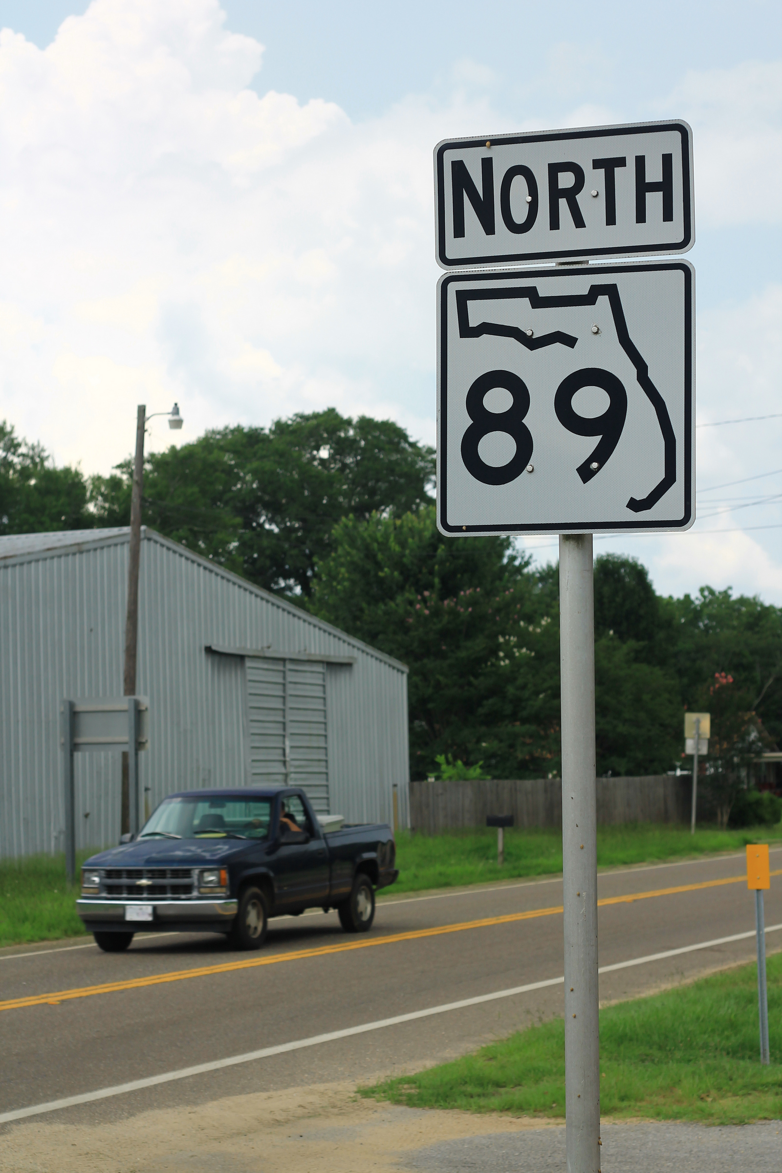 FL89 North Sign Roadside